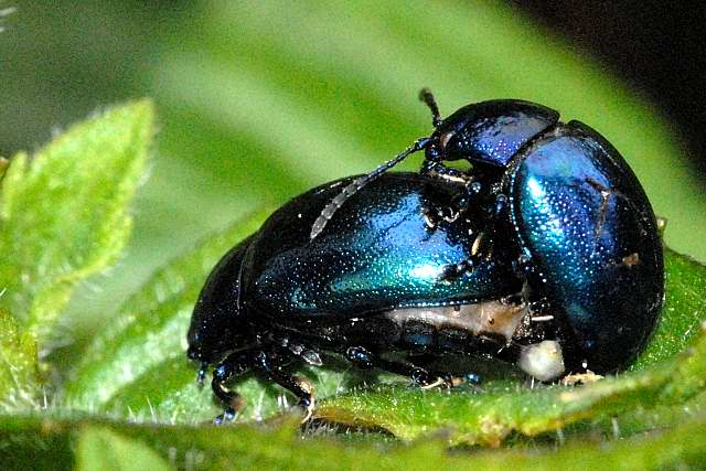 Chrysolina coerulans from Commanster, Belgian High Ardennes .